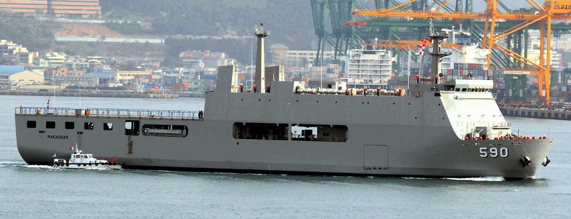 KRI Makassar.